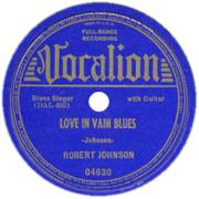 A record of Robert Johnson's Love In Vain Blues, issued by Vocalion Records